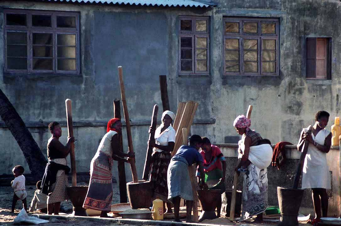 Women pounding and husking rice, Beira, Mozambique